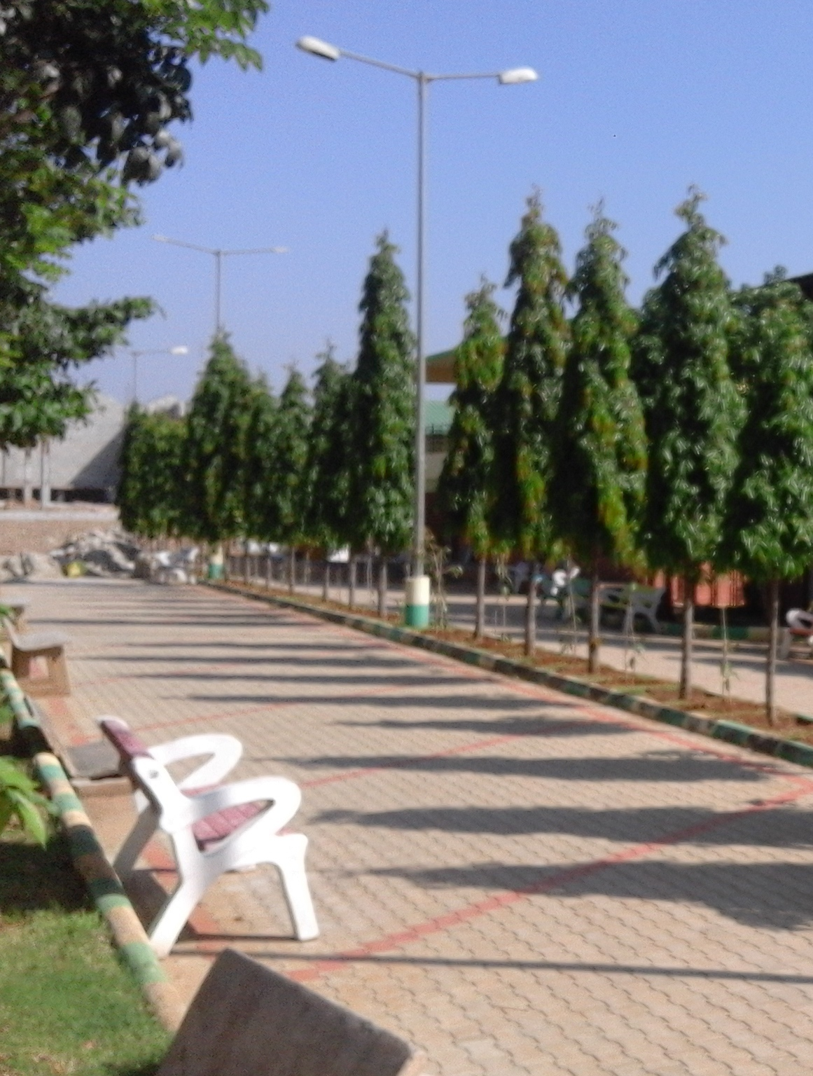 Jayprakash Nagar Library, Mysore